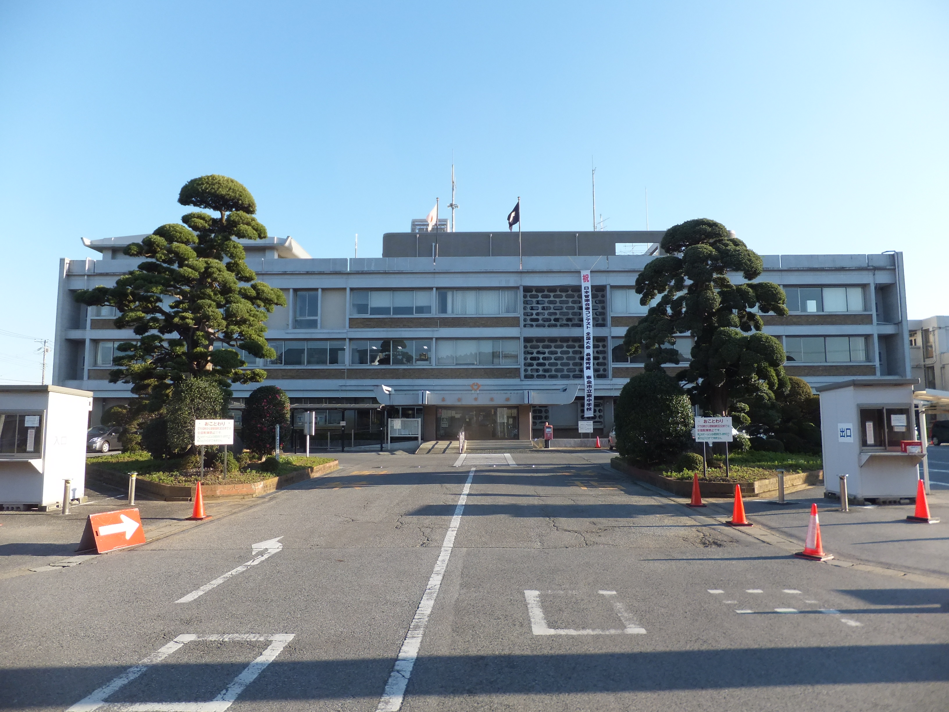 Togane City Hall